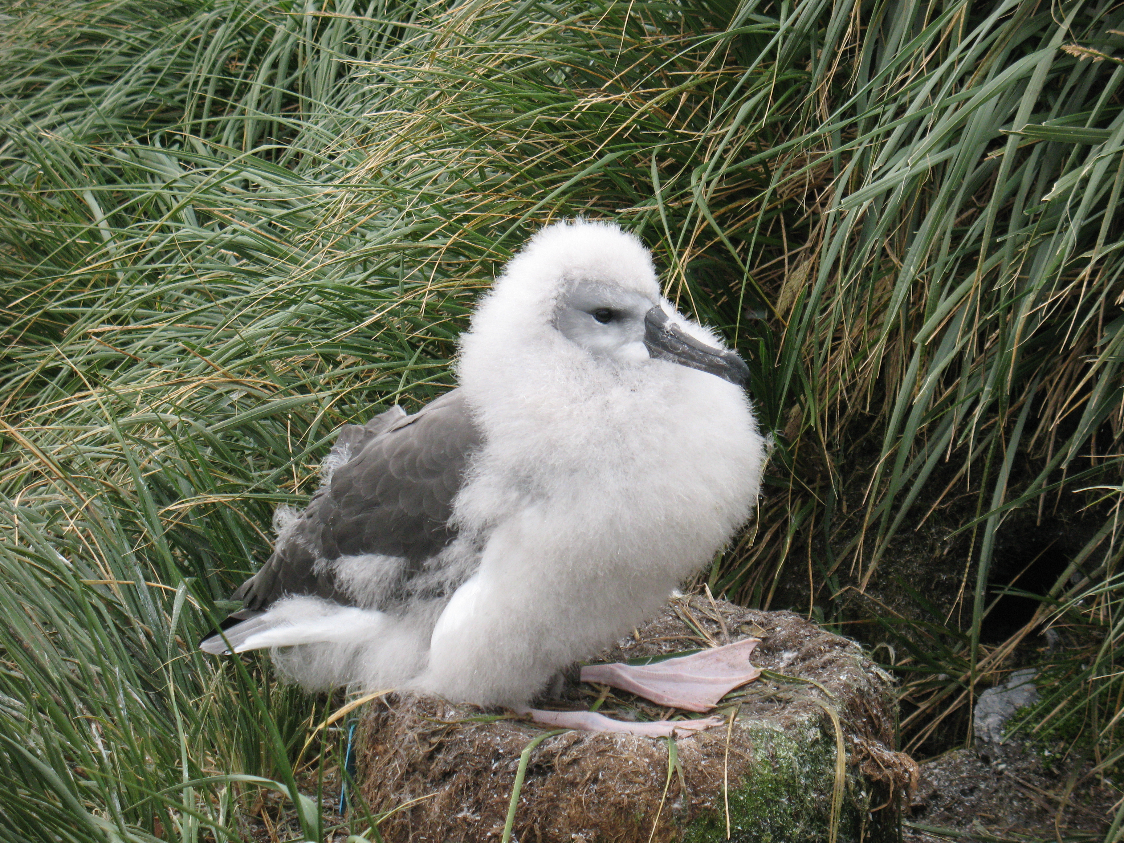 Thalassarche chrysostoma juvenile